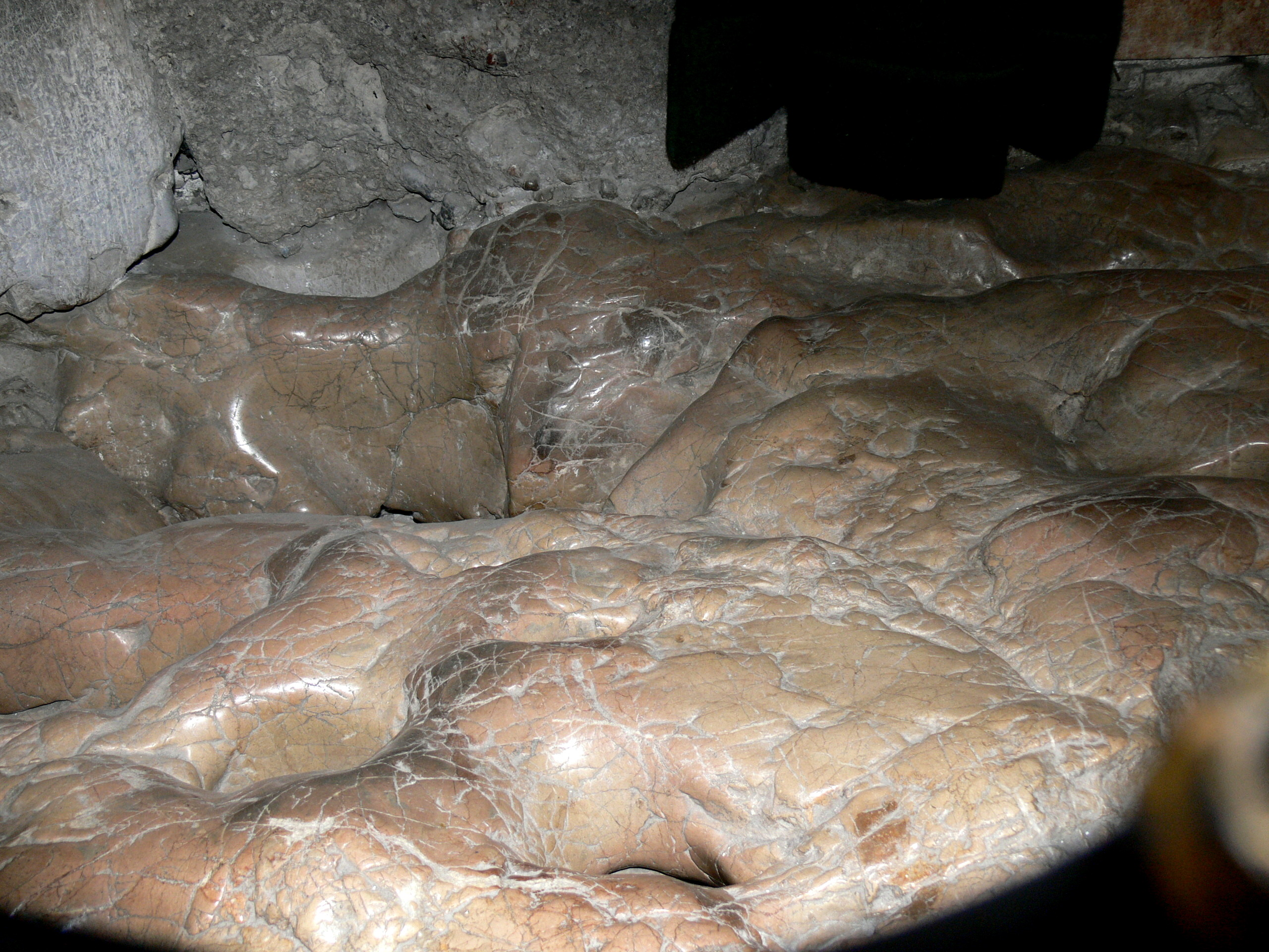 Sankt Wolfgang im Salzkammergut parish church ( Upper Austria ). Saint Wolfgang´s chapel: So called Wolfgang´s stone - probably a pagan ceremonial stone. According to legend, Saint Wolfgang lay down on it and left the impression of his body.